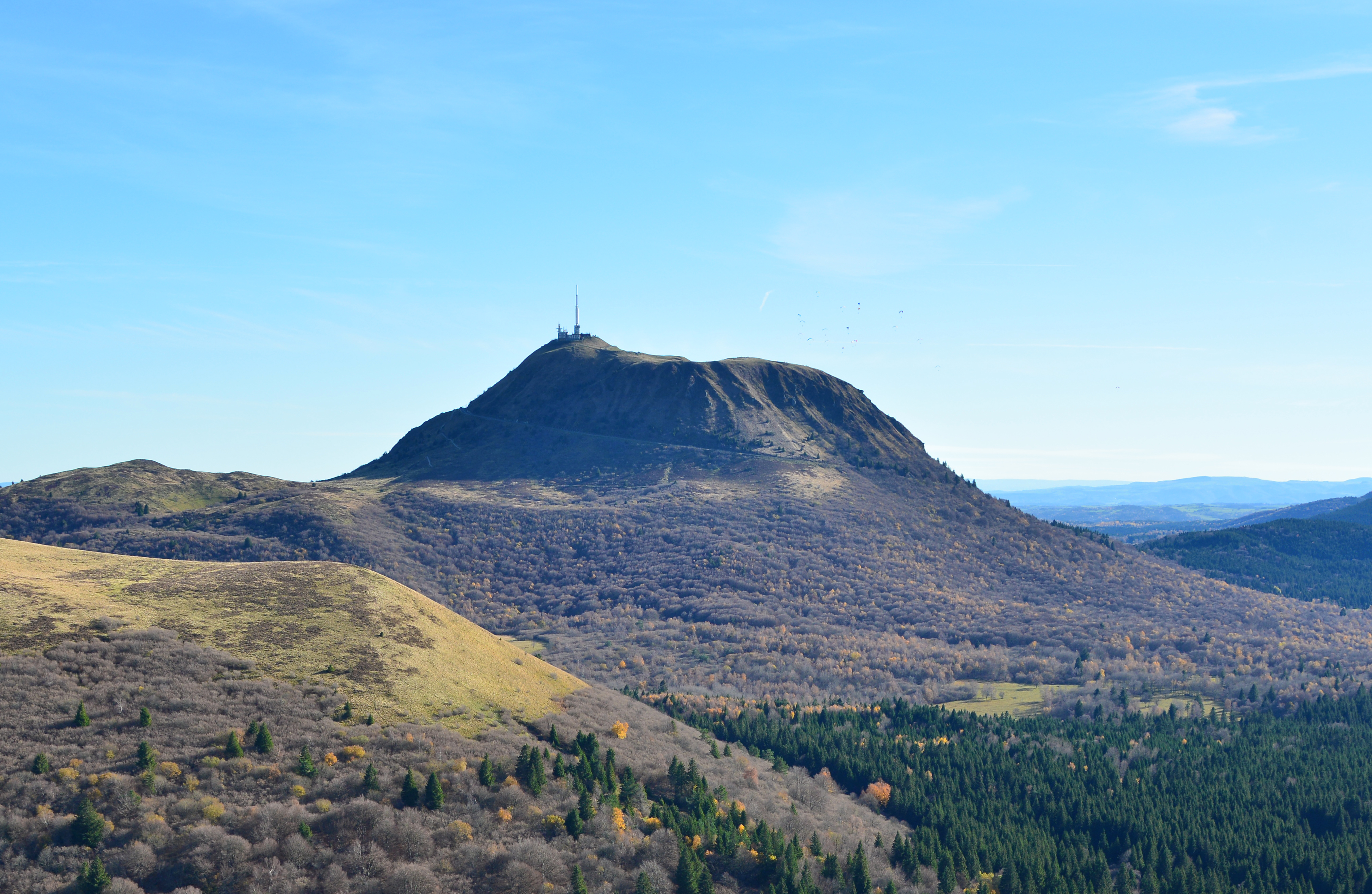 Puy de Dôme during autumn (Auvergne, France).